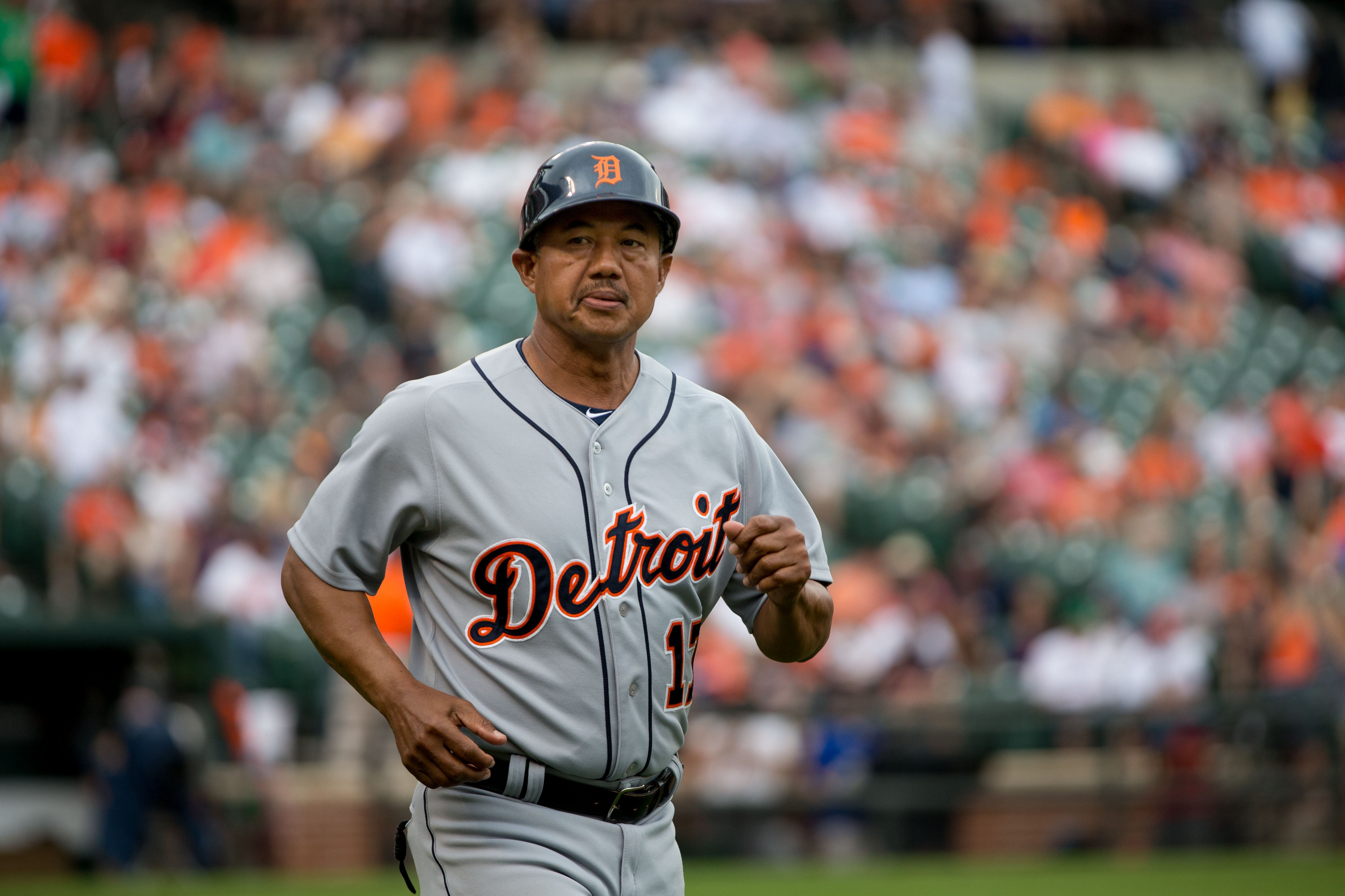 Rafael Belliard of the Detroit Tigers during a baseball game against the Baltimore Orioles on June 2, 2013 at Oriole Park at Camden Yards in Baltimore, Maryland.